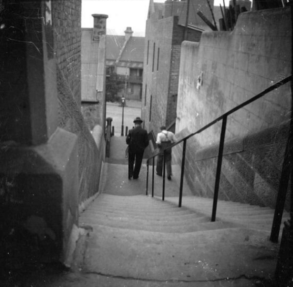 Photo of Caraher's Stairs